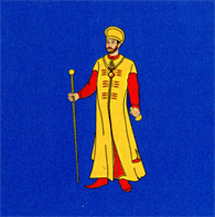 Flag of Bubueci